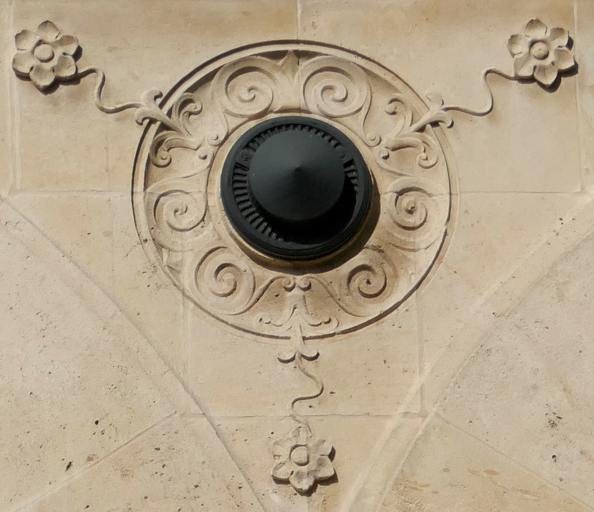 Detail of Bibliothèque Sainte-Geneviève façade.